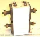 Took this picture of the first organic semiconductor active electronic device myself, before sending it off to Smithsonian. Peter H Proctor